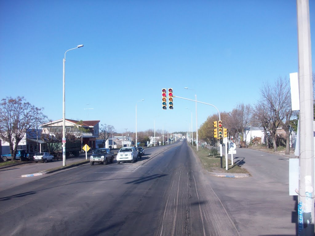 Entrada por ruta 5 a la ciudad de durazno